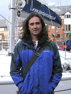 Neil Oliver by the boat Tiger II at Windsor Quay, Cardiff in October 2006. described on Flickr as 'Here is BBC presenter Neil Oliver. We had just finished filming an episode of the TV series 'Coast' about Cardiff Bay. See it and me on your tellies 8pm BBC2 Sun June 24th 2007'